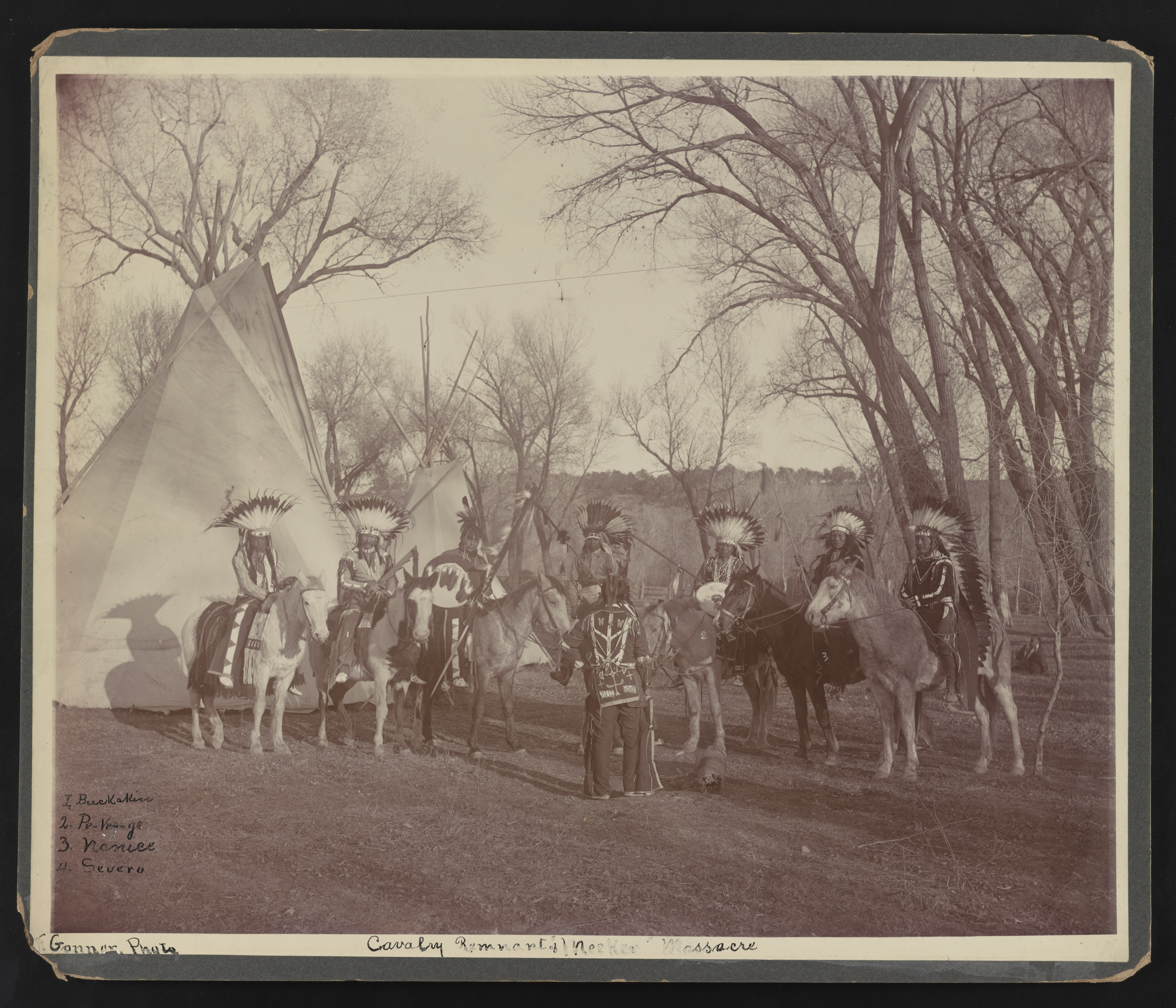 Title: Cavalry remnant of "Meeker" massacre 1. Buckskin - 2. Pe-Ve-Ge - 3. Nanice - 4. Severo / / F. Gonner, photo. Abstract/medium: 1 photograph : gelatin silver print on cardboard mount ; sheet 38 x 45 cm, mount